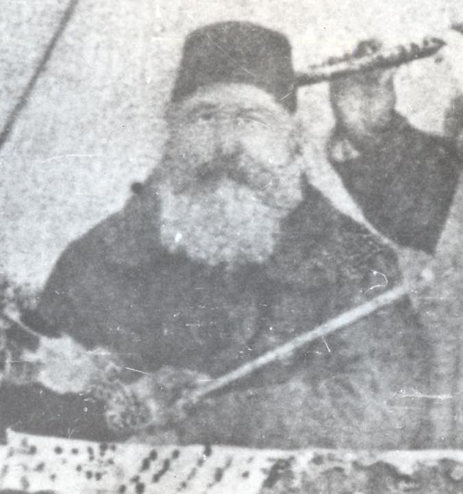 Mihay Shaffran, First Bulgarian Orchestra, 1851.